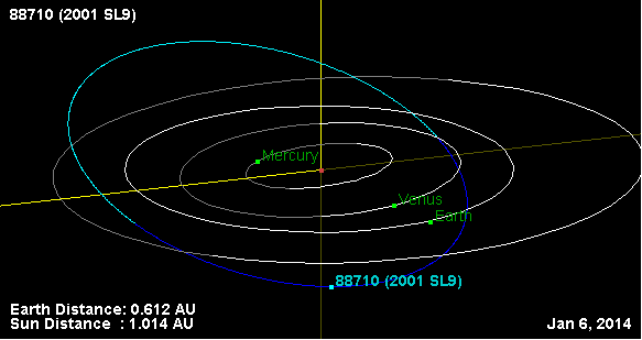 This diagram illustrates the orbit of the asteroid (88710) 2001 SL9.